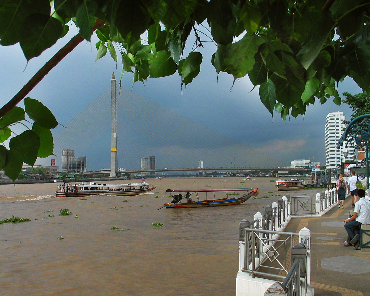 Bangkok, Thailand: Chao Phraya Express Boats and "Ruea Hang Yao" (longtail boat - common water transport in Thailand), in front of Rama VIII. Bridge, own photo August 2004